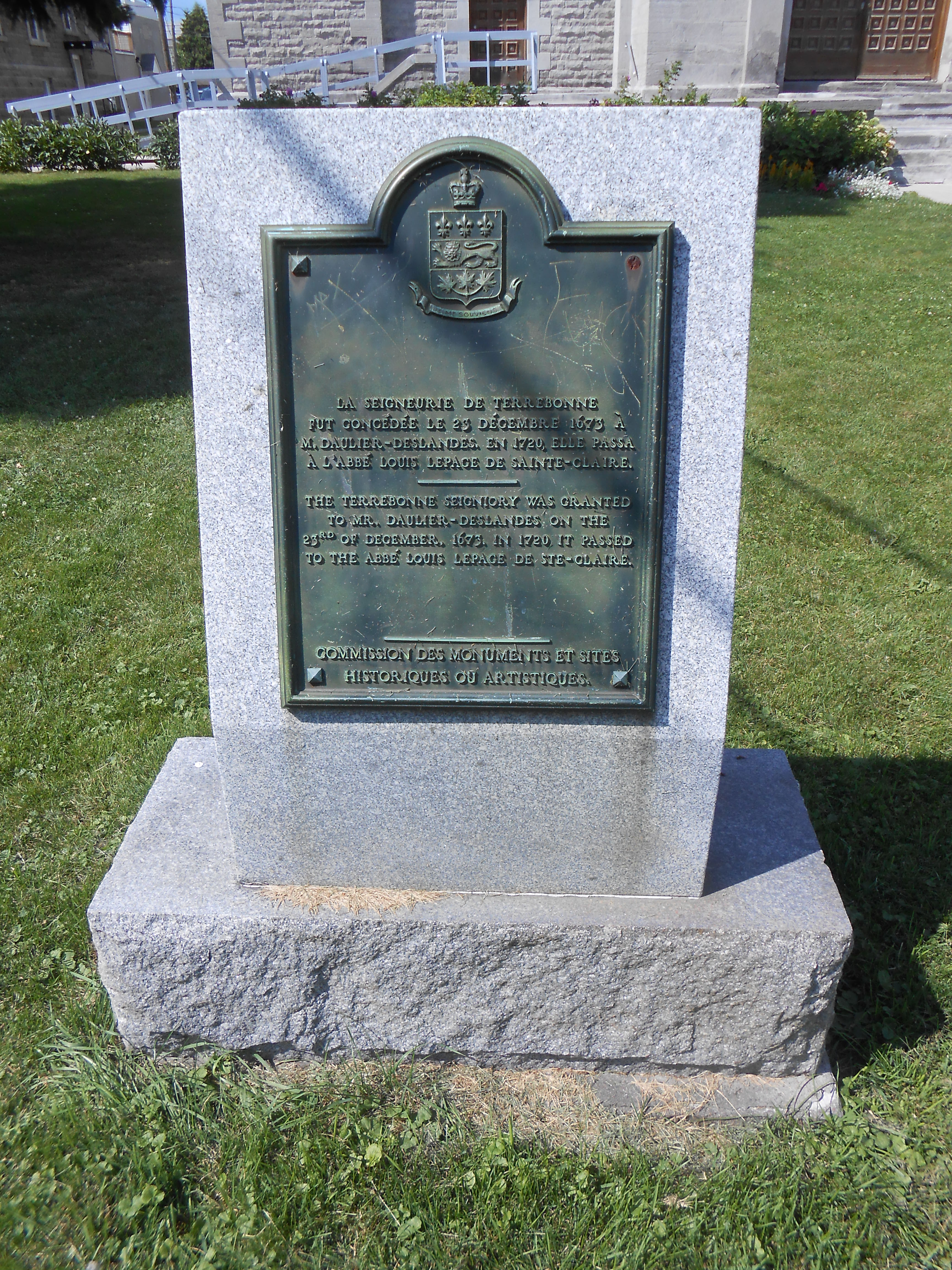 « The Terrebonne seigniory was granted to Mr. Daulnier-Deslandes on the 23rd of December, 1673. In 1720 it passed to the abbé Louis Lepage de Ste-Claire. »